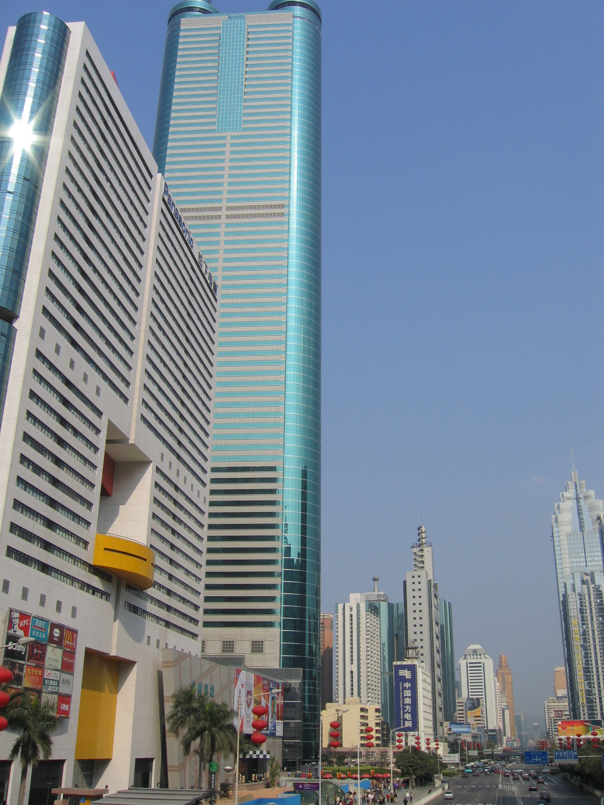 深圳地王 Shun Hing Square, Shenzhen, Guangdong, China